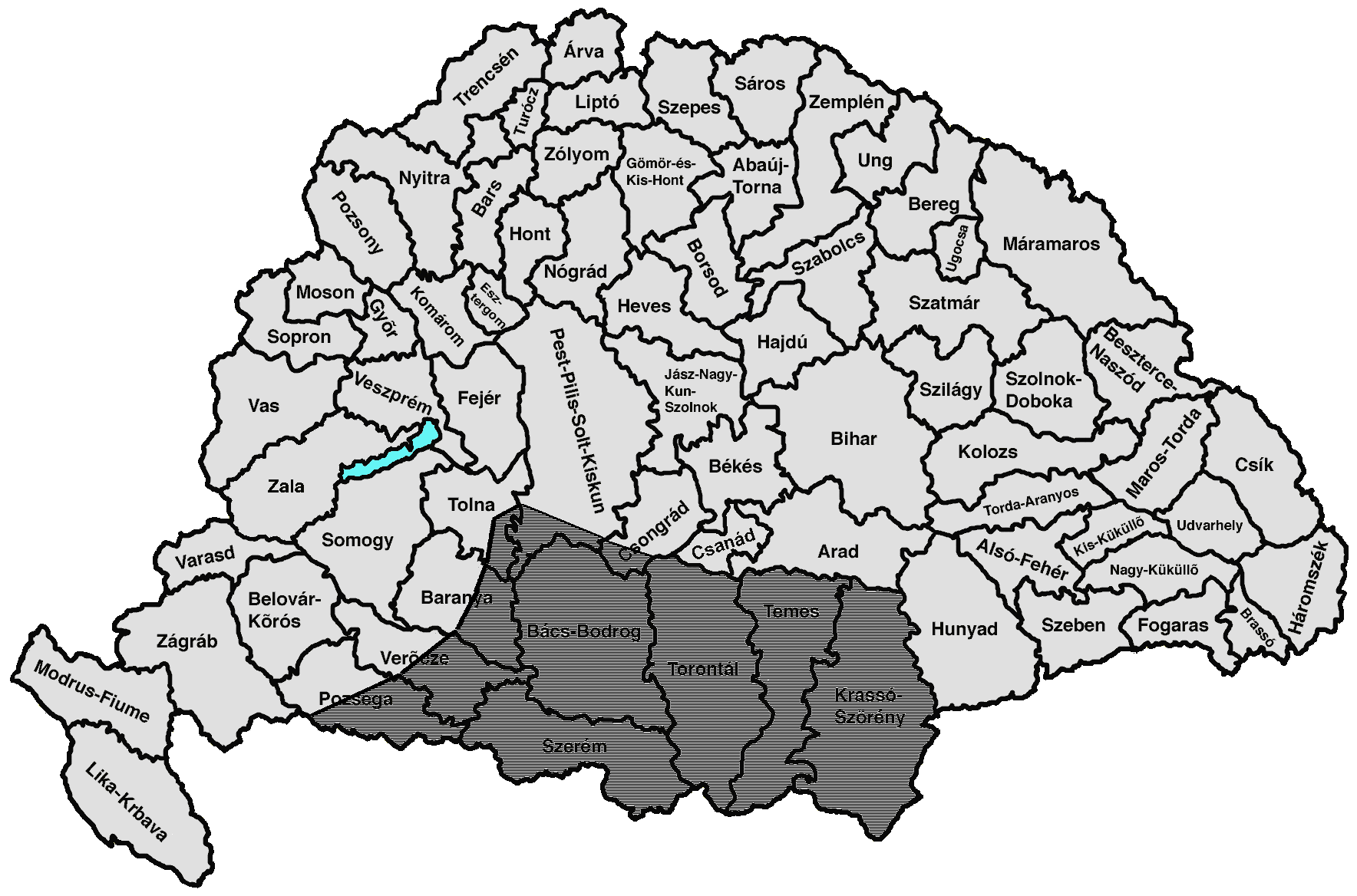 The boundaries of the almost complete destrucion of the Hungarian settlement areas during the Ottoman occupation of Hungary Source: HÓMAN–SZEKFŰ, Magyar Történet, BUDAPEST, 1928 Source for the map